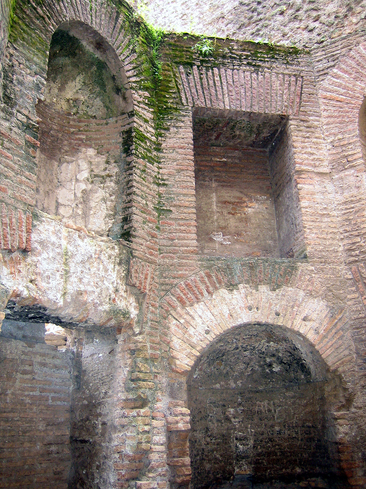 see above